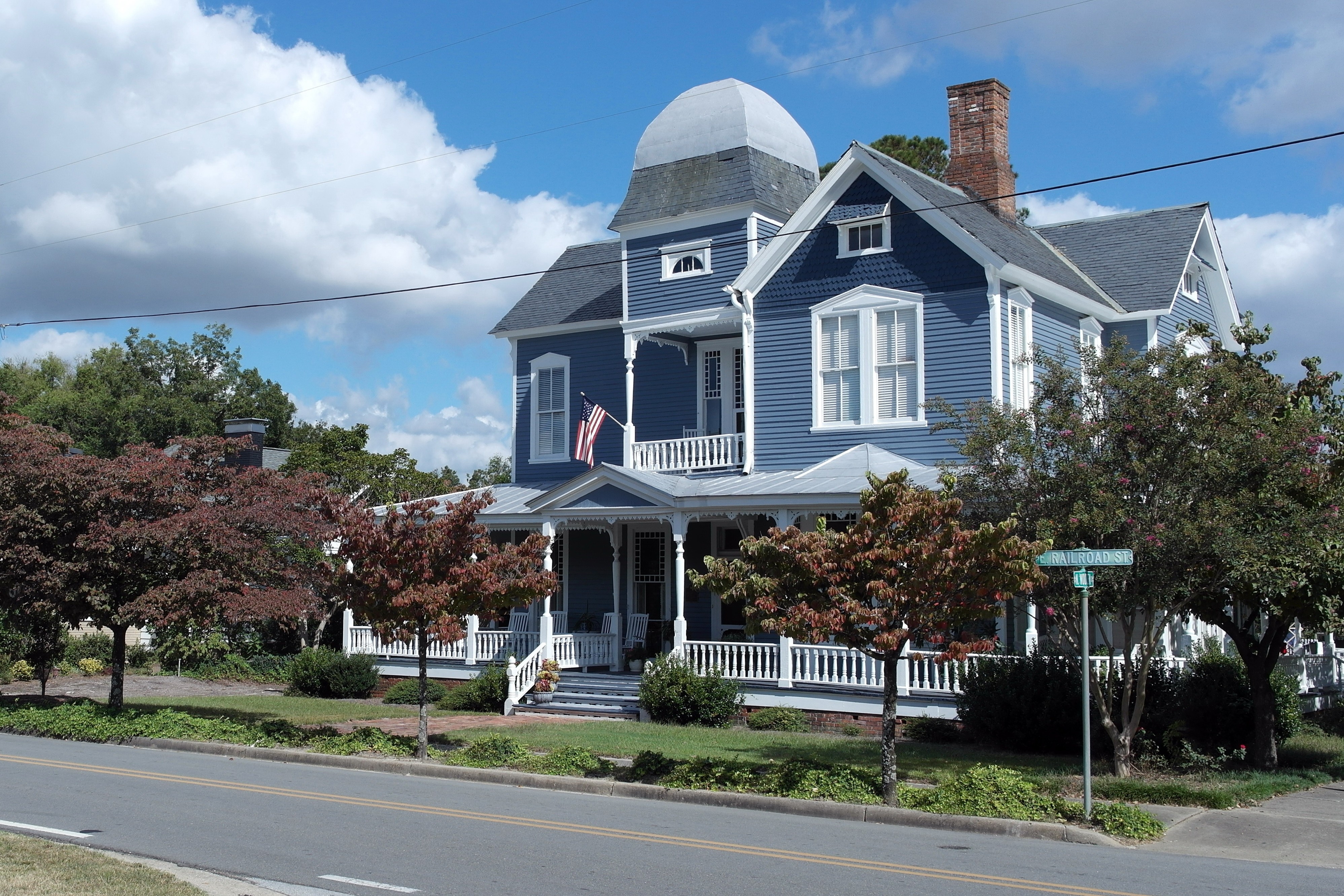 LaGrange Historic District